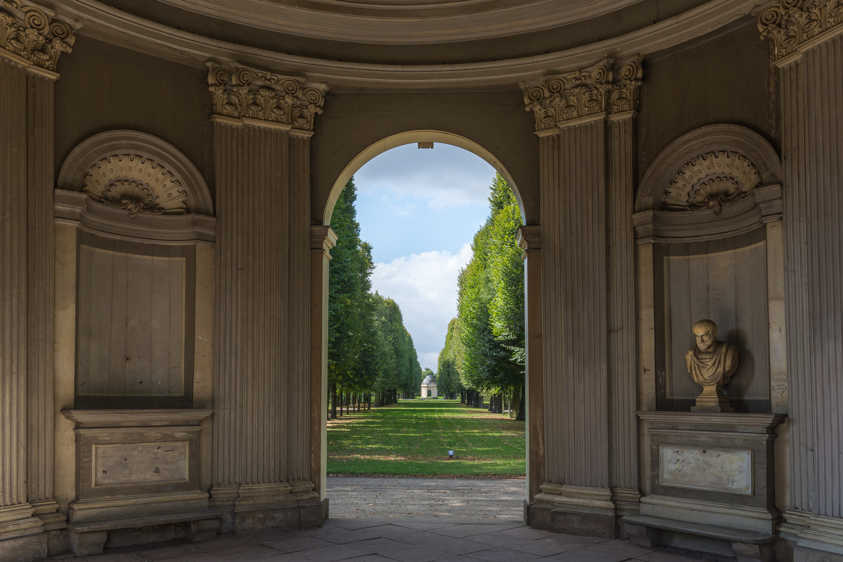 Großer Garten (“Great Garden”) in Hannover, Lower Saxony. View from Southeast Corner Pavillon to the westerly pavillon